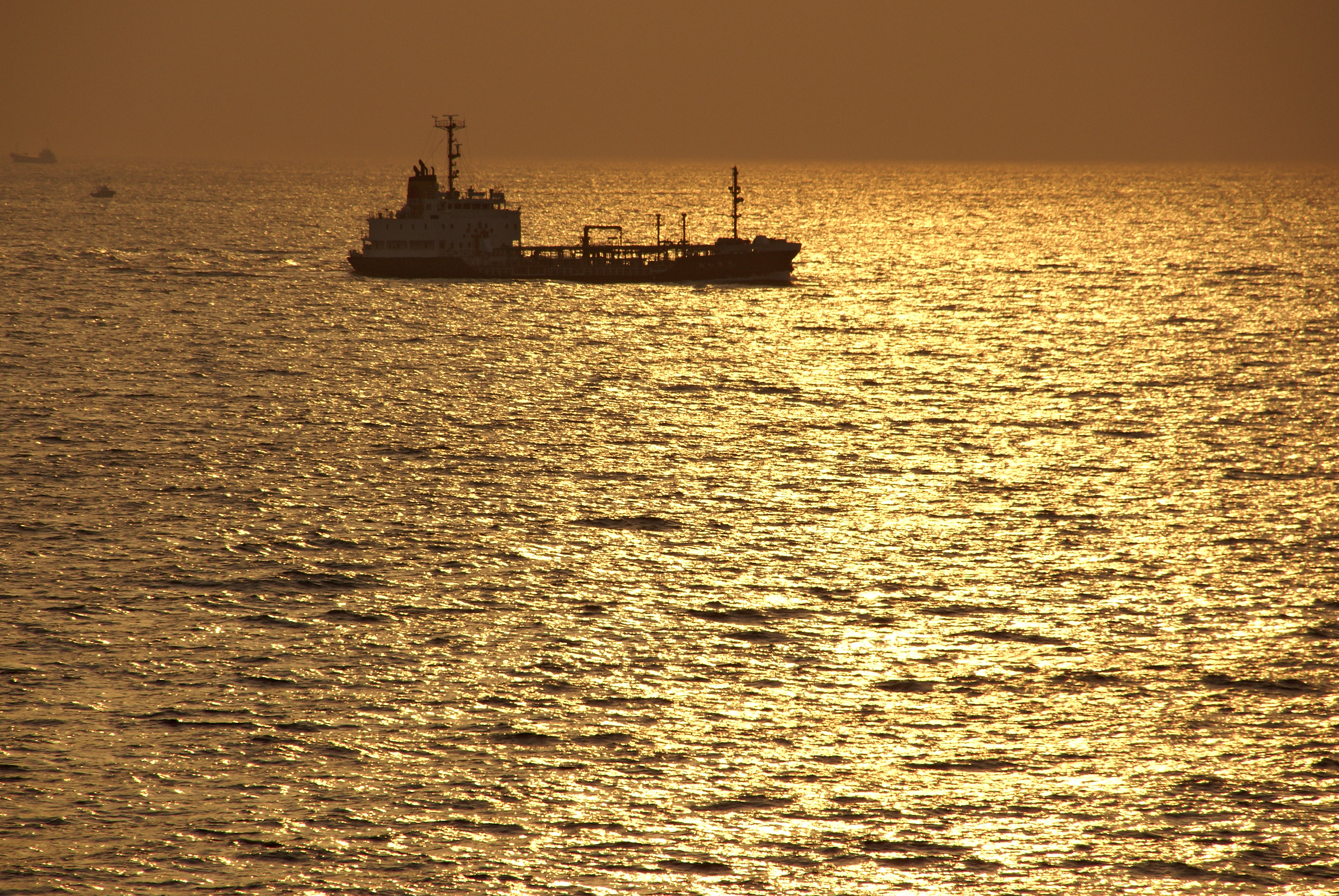 Seto-naikai at Higashikagawa, Kagawa prefecture, Japan